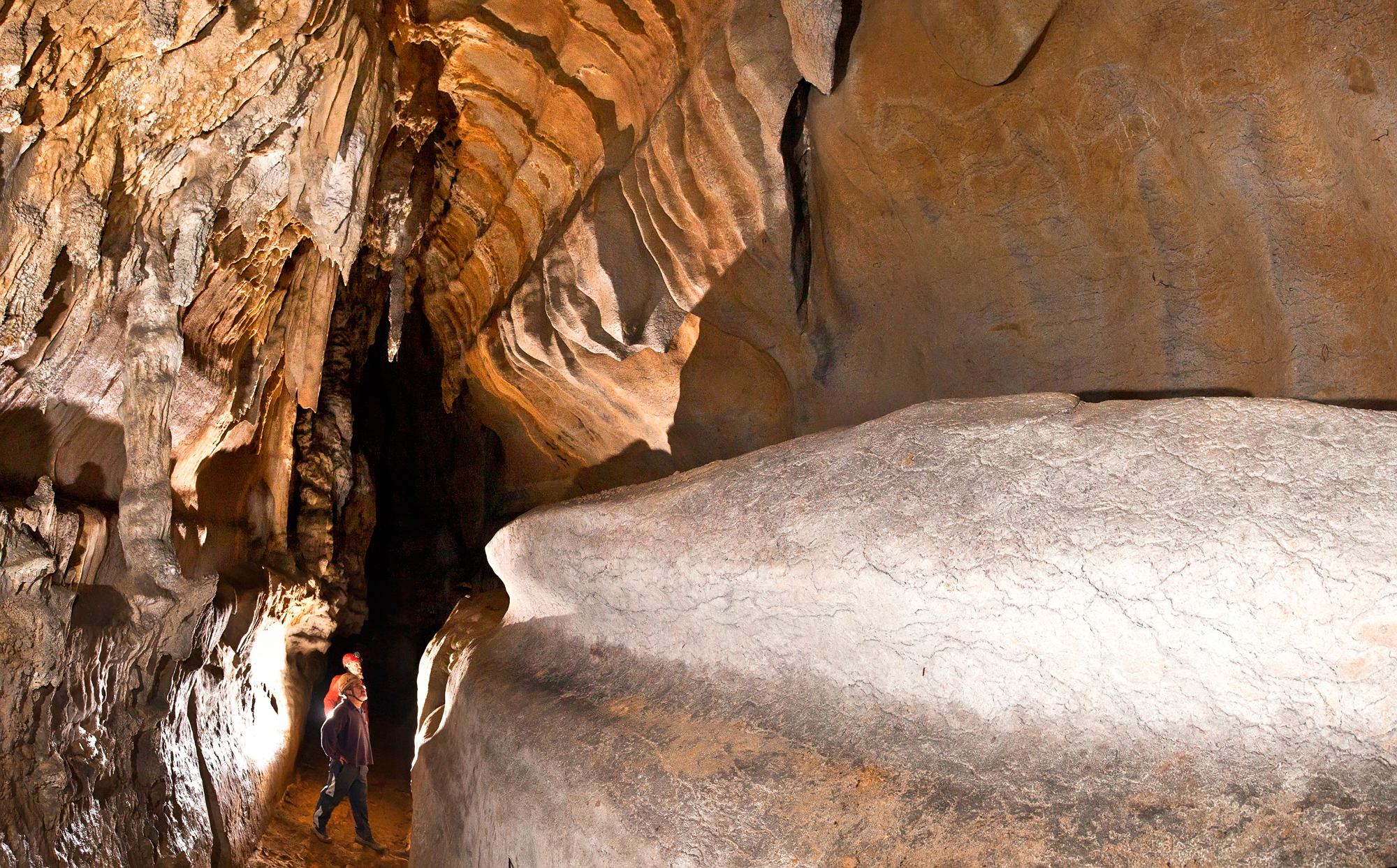 Speleologists at the engravings gallery of Atxurra Cave (Berriatua, Spain)